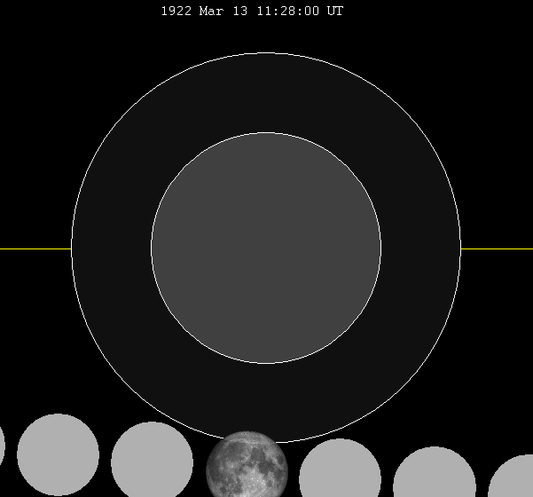 =lunar eclipse chart of moon's path through the earth's shadow. thumb